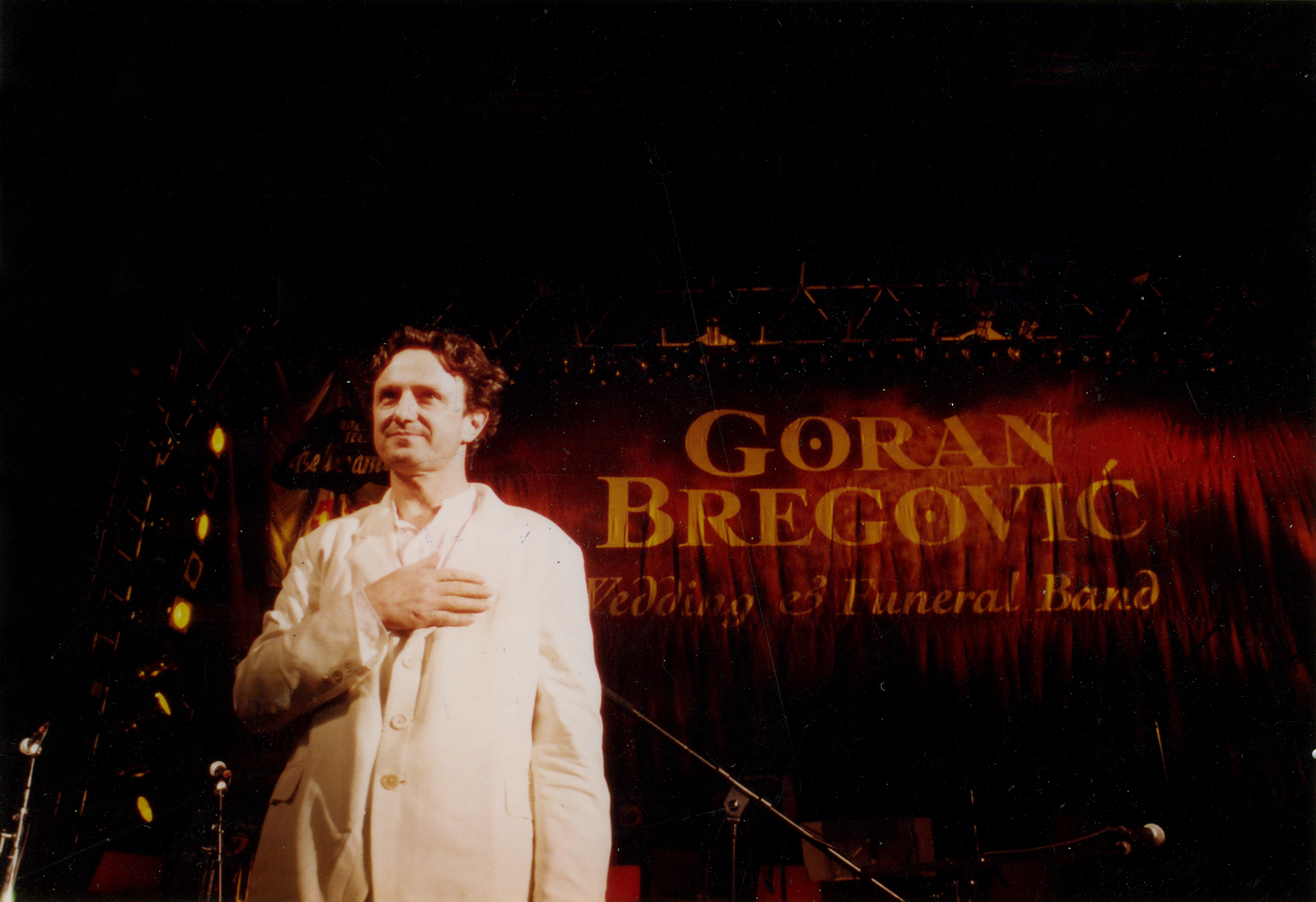 Goran Bregović at the Concert of the Weddings and Funerals Orchestra in Niš, 1997